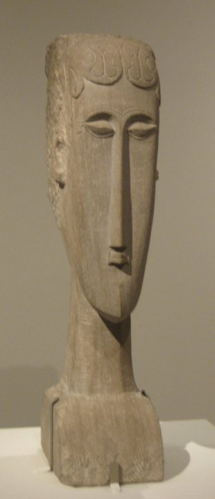 'Woman's Head', limestone sculpture by Amedeo Modigliani, 1912, Metropolitan Museum of Art